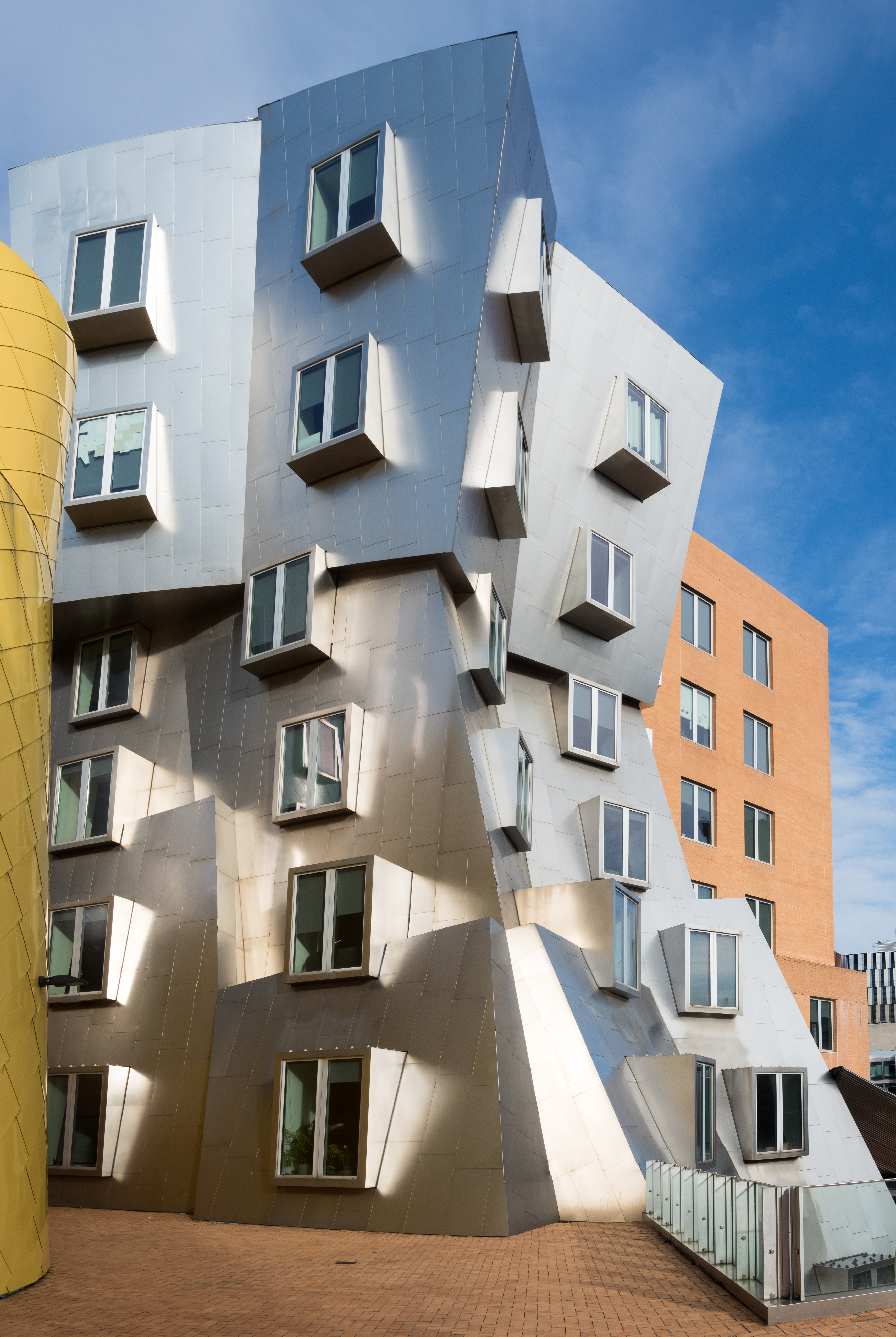 Stata Center at MIT